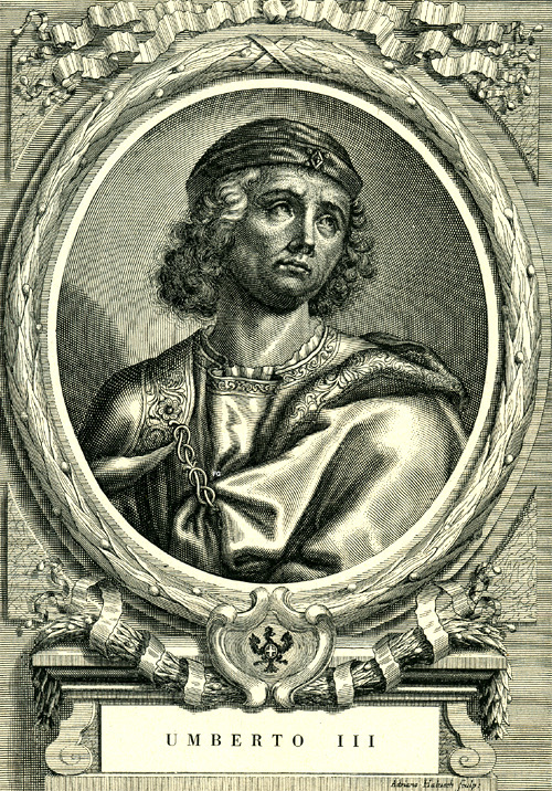 Humbert III of Savoy